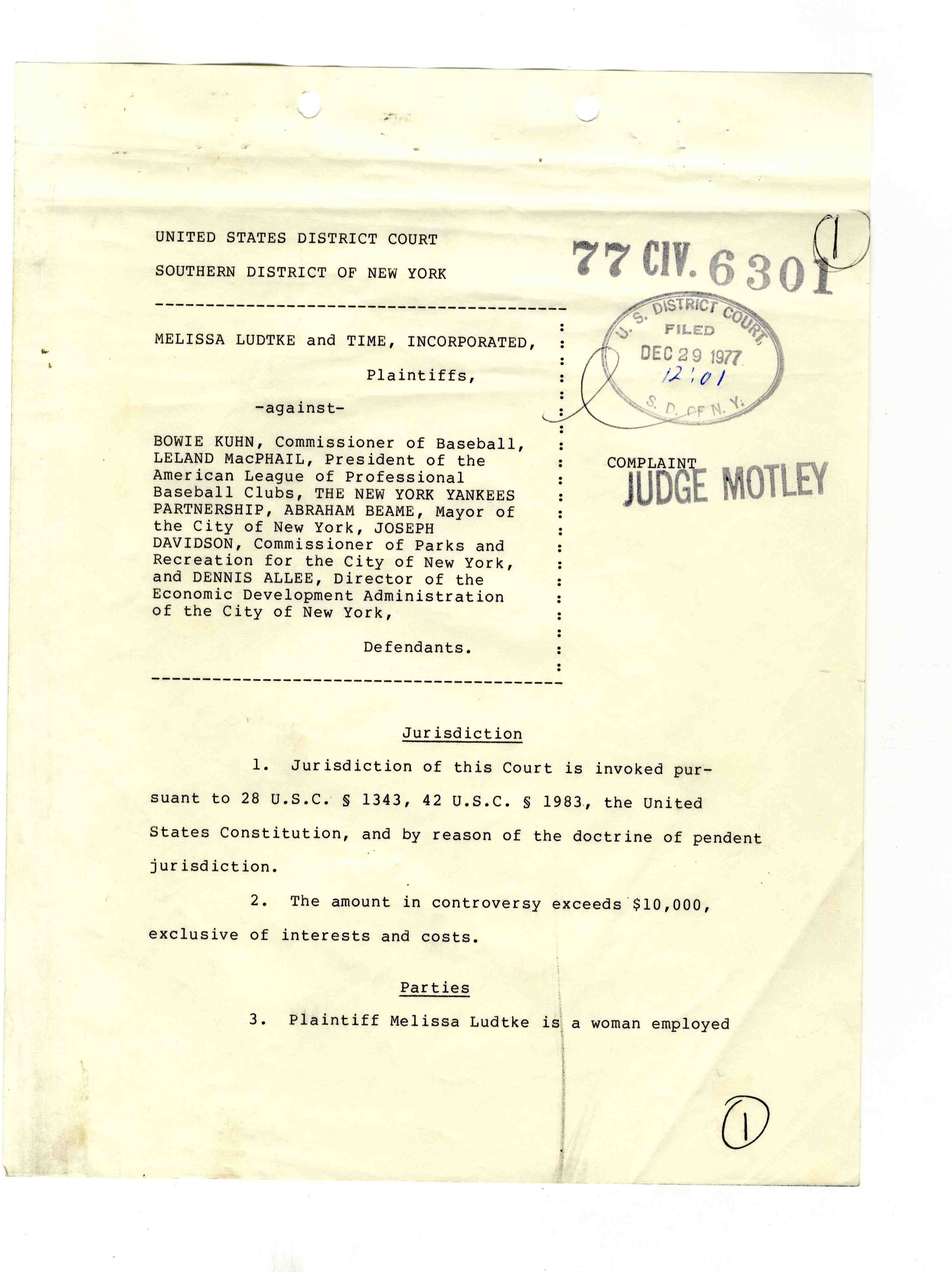 First page of court case against the baseball commission by Melissa Ludtke and Time Inc.